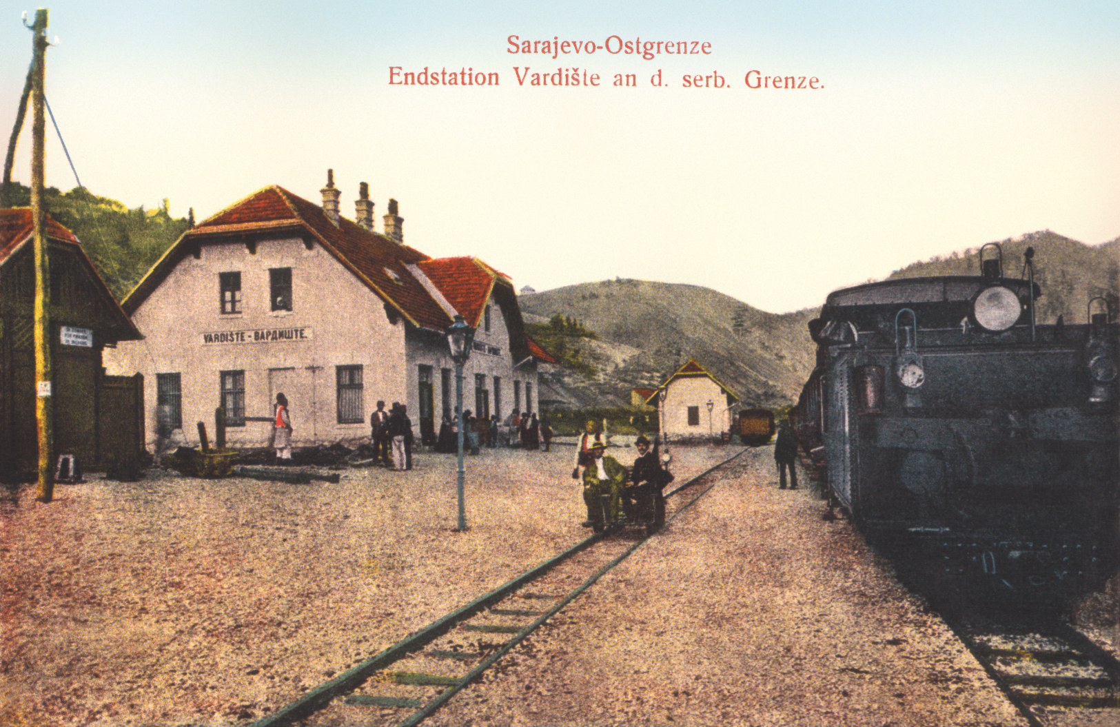 Narrow-gauge railway station Vardište on the line Sarajevo (- Vardište) - Uvac